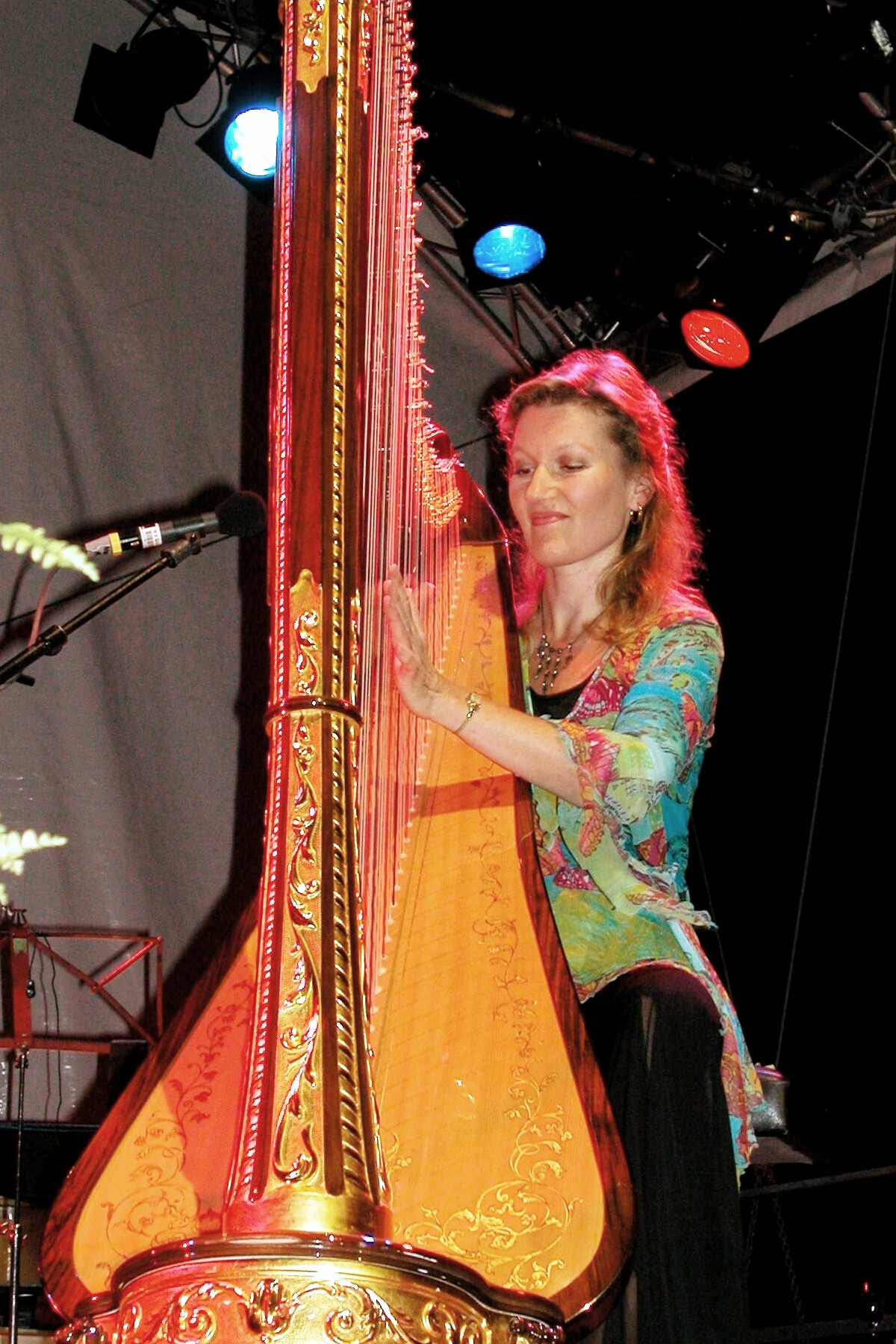 Ulla van Daelen on stage in Schloß Lerbach (Germany) with a concert harp from Salvi